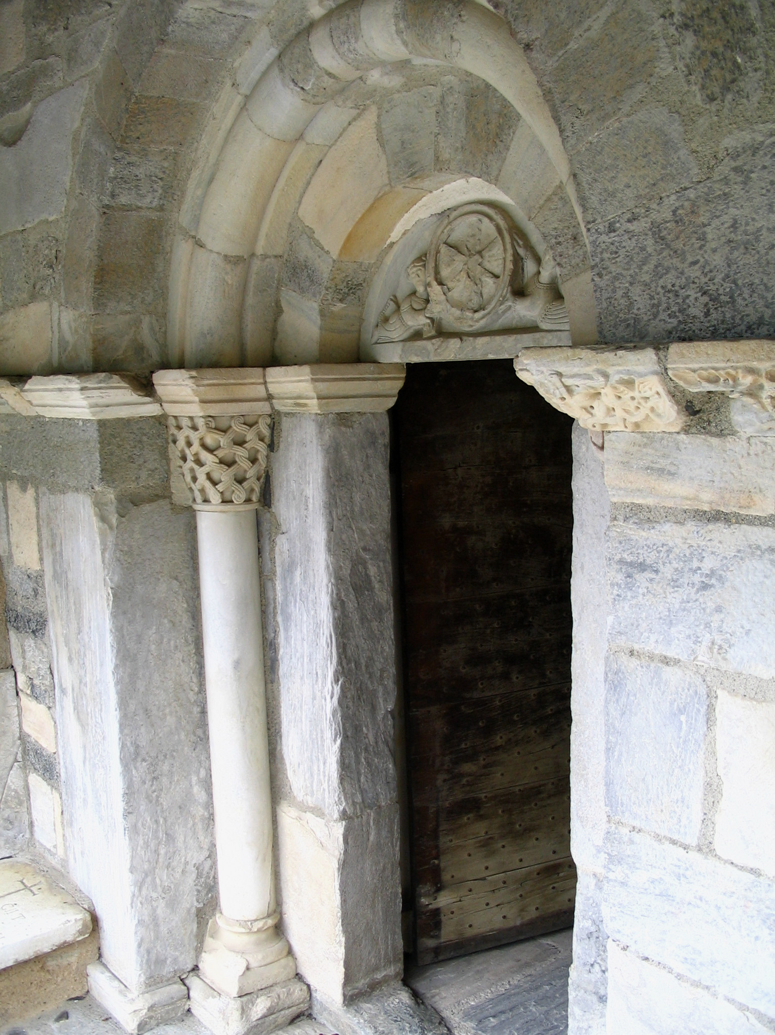 Porche de l'église d'Assouste - Pyrénées Atlantique - France Porch of the church of Assouste in the French Pyreneas. Auteur/author: P.Charpiat - 2006